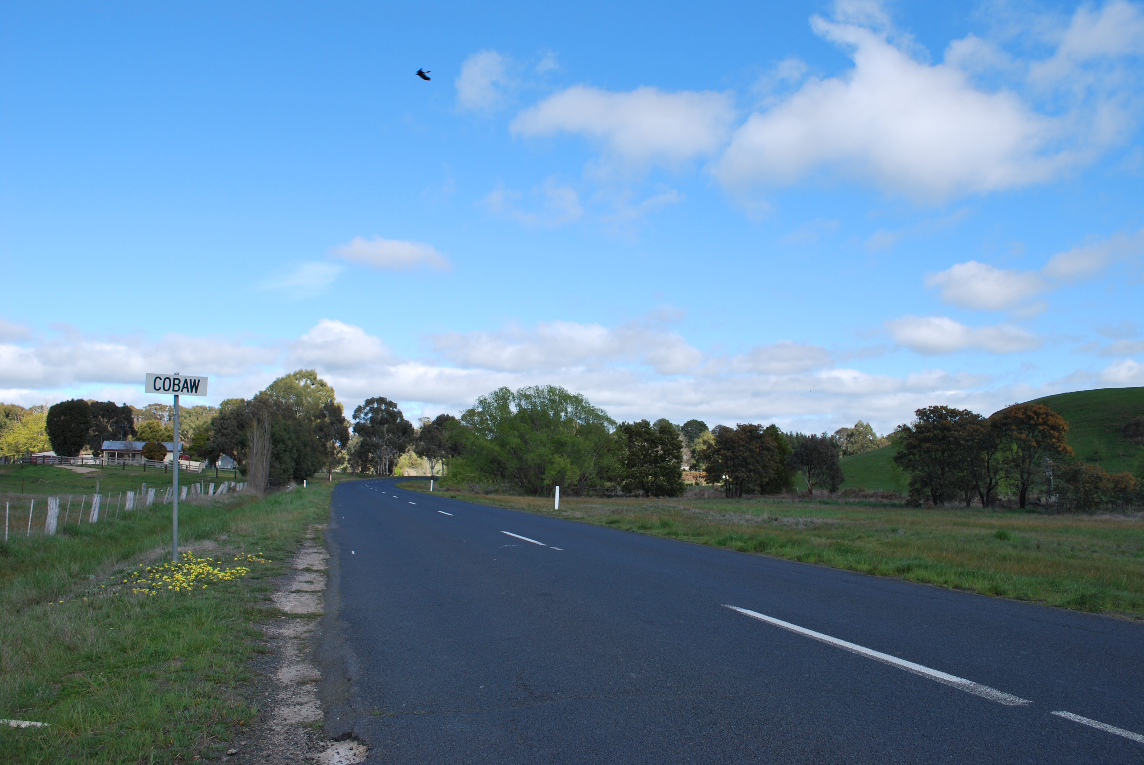 Town entry sign at Cobaw, Victoria